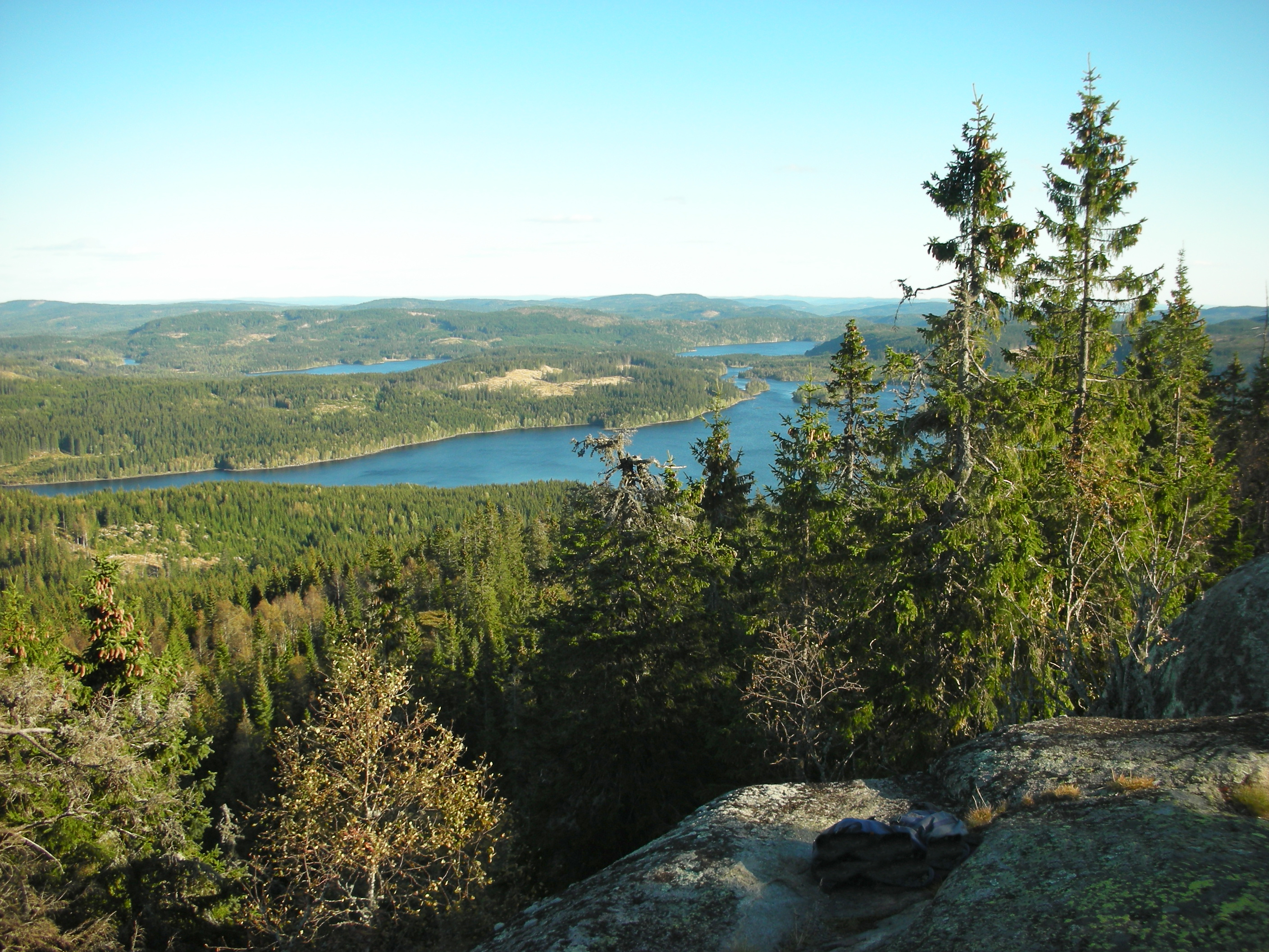 Sandungen, a lake in the forested Nordmarka, Oslo, Norway. Picture is taken from north-west, from the mountain Kjerkeberget.